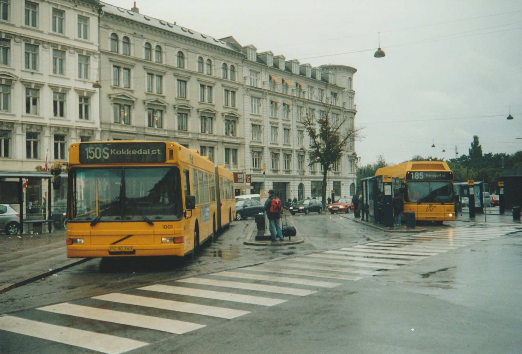 Arriva bus 1001 on HT bus line 150S and Connex bus 5092 on HT bus line 185 at Nørreport Station in Copenhagen. The lines still exist, bus the buses are gone, and the terminal has been rebuild.